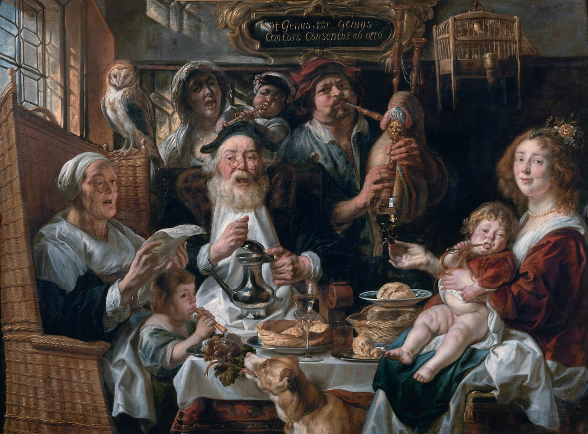 As the Old Sing, So the Young Pipe oil on canvas 155 × 180 cm 1638-1640 inscribed t.c.: Ut genus,est genius concors consentus ab ortu Joconde database: entry 06380000272